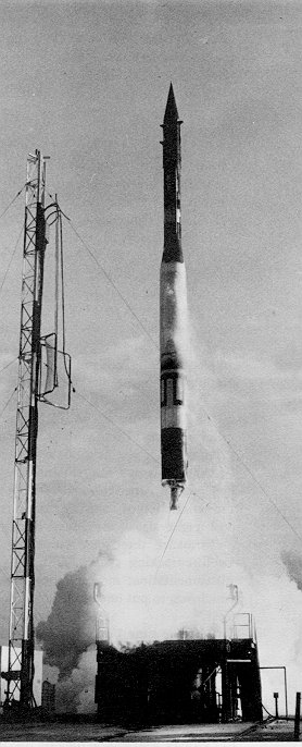 TV-4 was launched 17 March 1958, pulling Vanguard I into orbit.